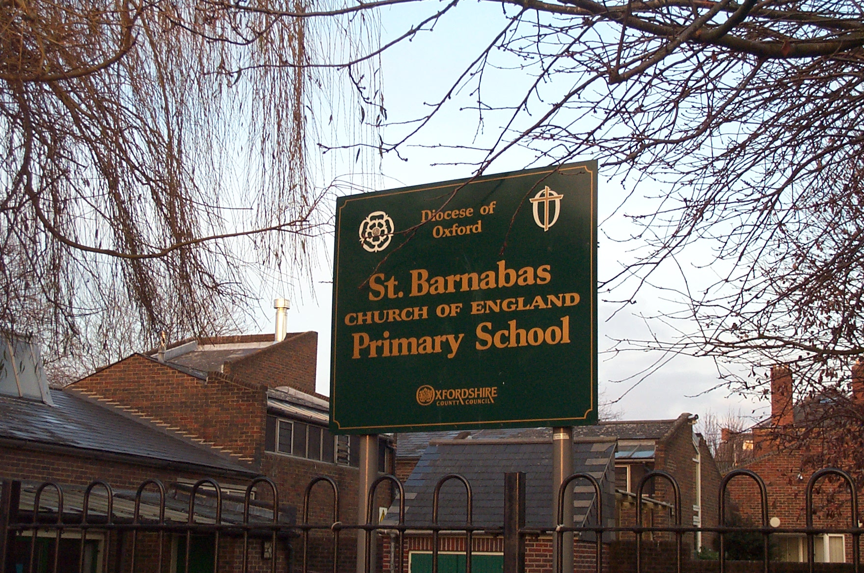 St Barnabas Church of England Primary School, Oxford.